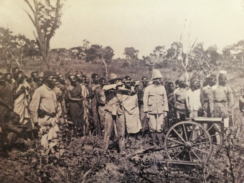 Demonstration of German weapons in front of Ngoni warriors in 1897